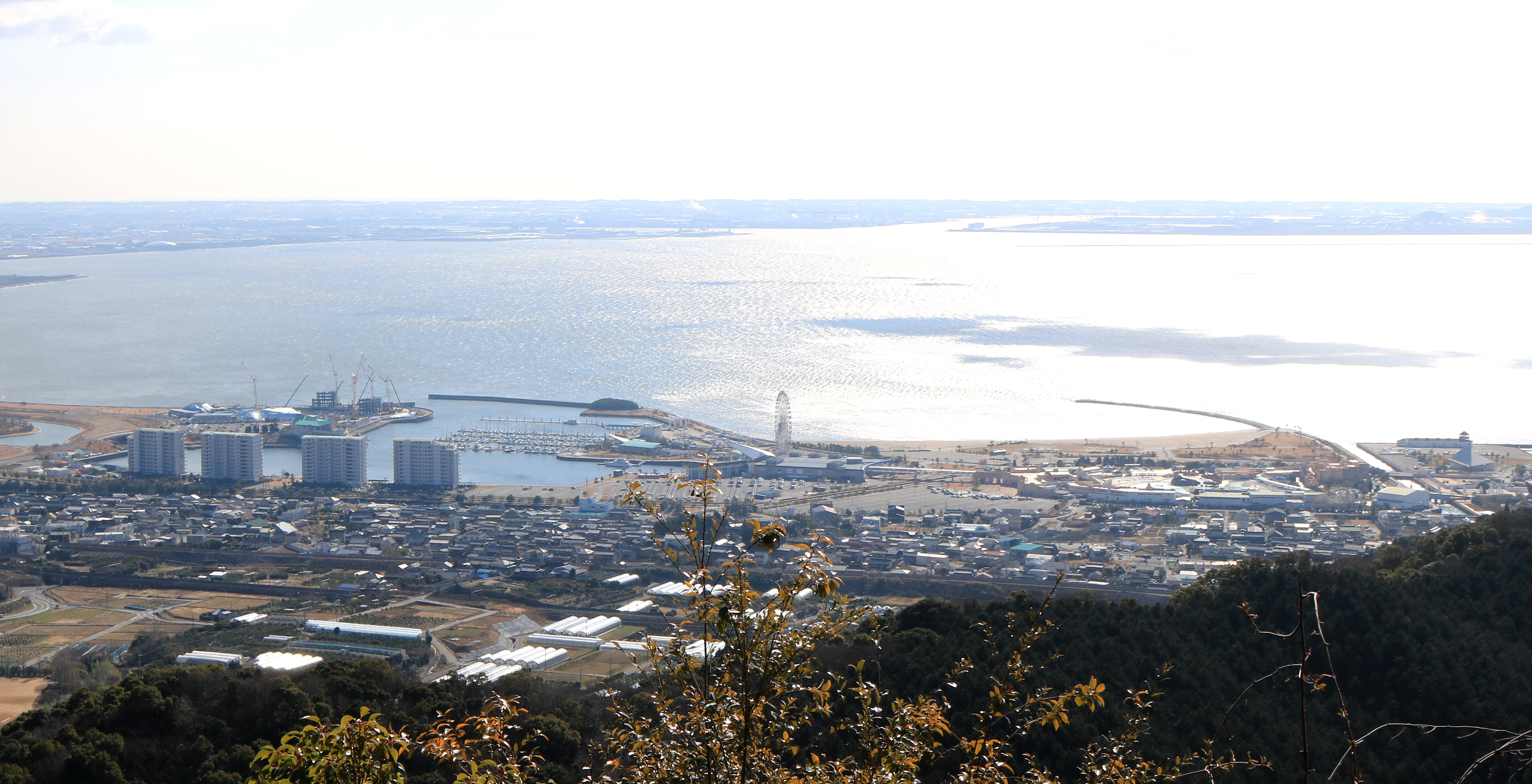 Laguna Ten Bosch seen from Mount Togami in Gamagori, Aichi prefecture, Japan.